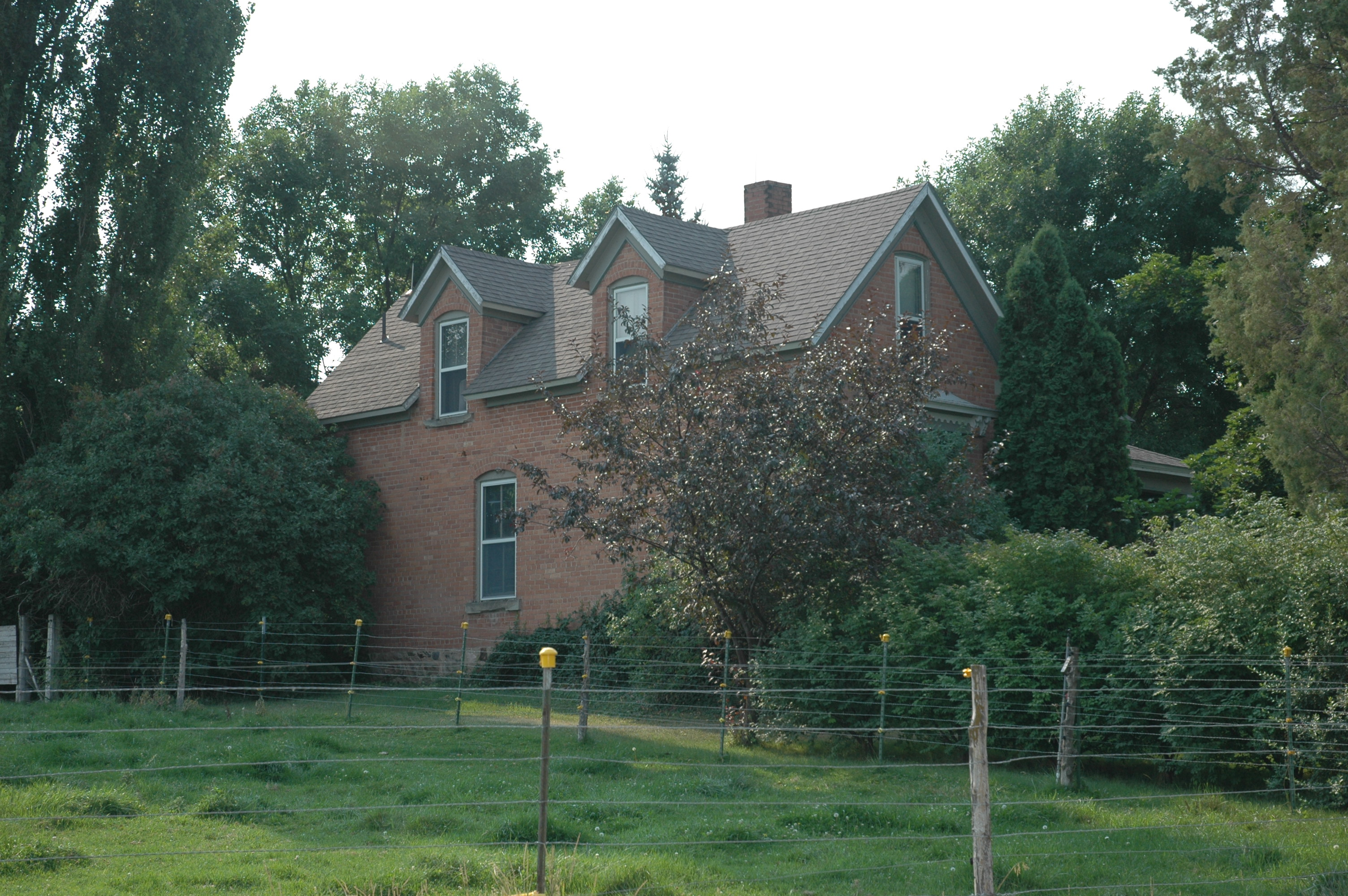 The main house of the James and Amy Burnham Farmstead, a historic farm in Richmond, Utah, United States.